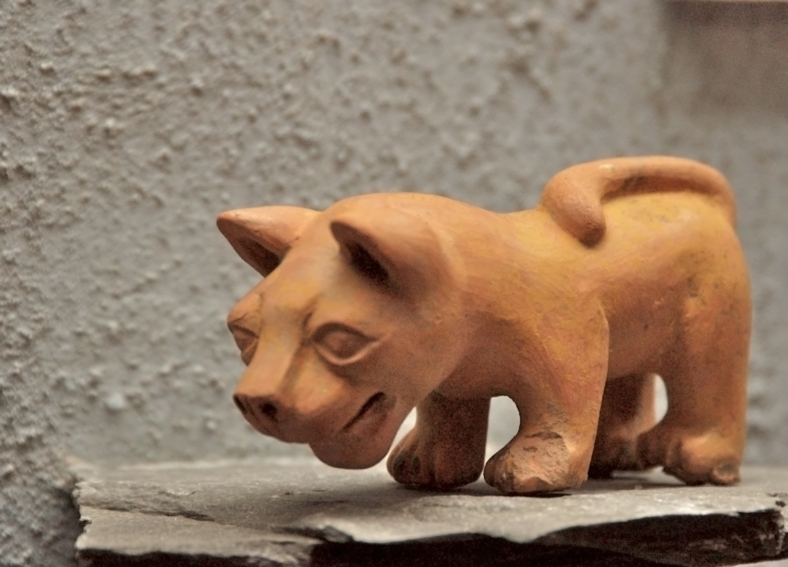 They should license reproductions of this cute little fellow. He would leave the Metropolitan Museum of Art's faience hippo behind in the dust. In the collection of the National Archaeological Museum, La Paz, Bolivia. I've complied with restrictions on the use of flash, and taken photos only when permitted by the museum.